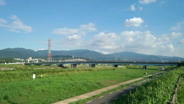 Ishi River and Kongo Mountains seen from Tondabayashi City, Osaka Prefecture, Japan